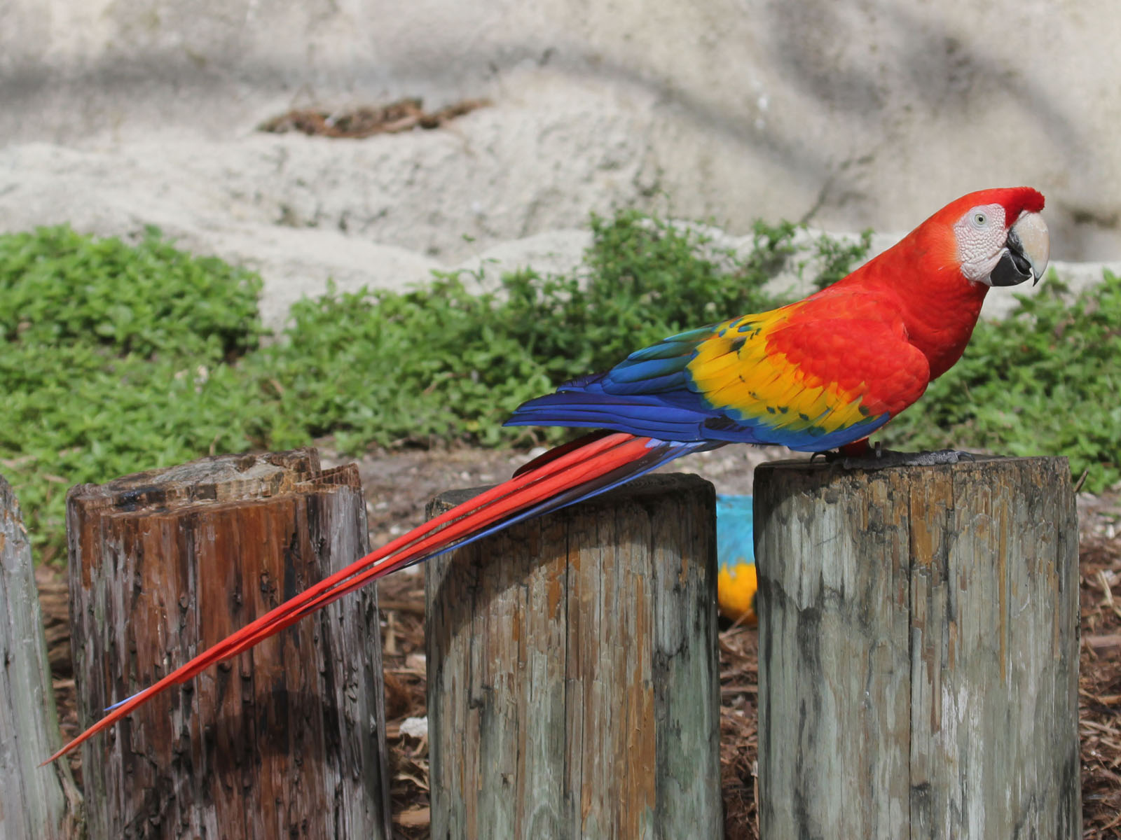 Scarlet Macaw (Ara macao) - Jungle Island of Miami